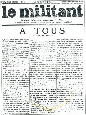 first page of the "Le Militant" magazine